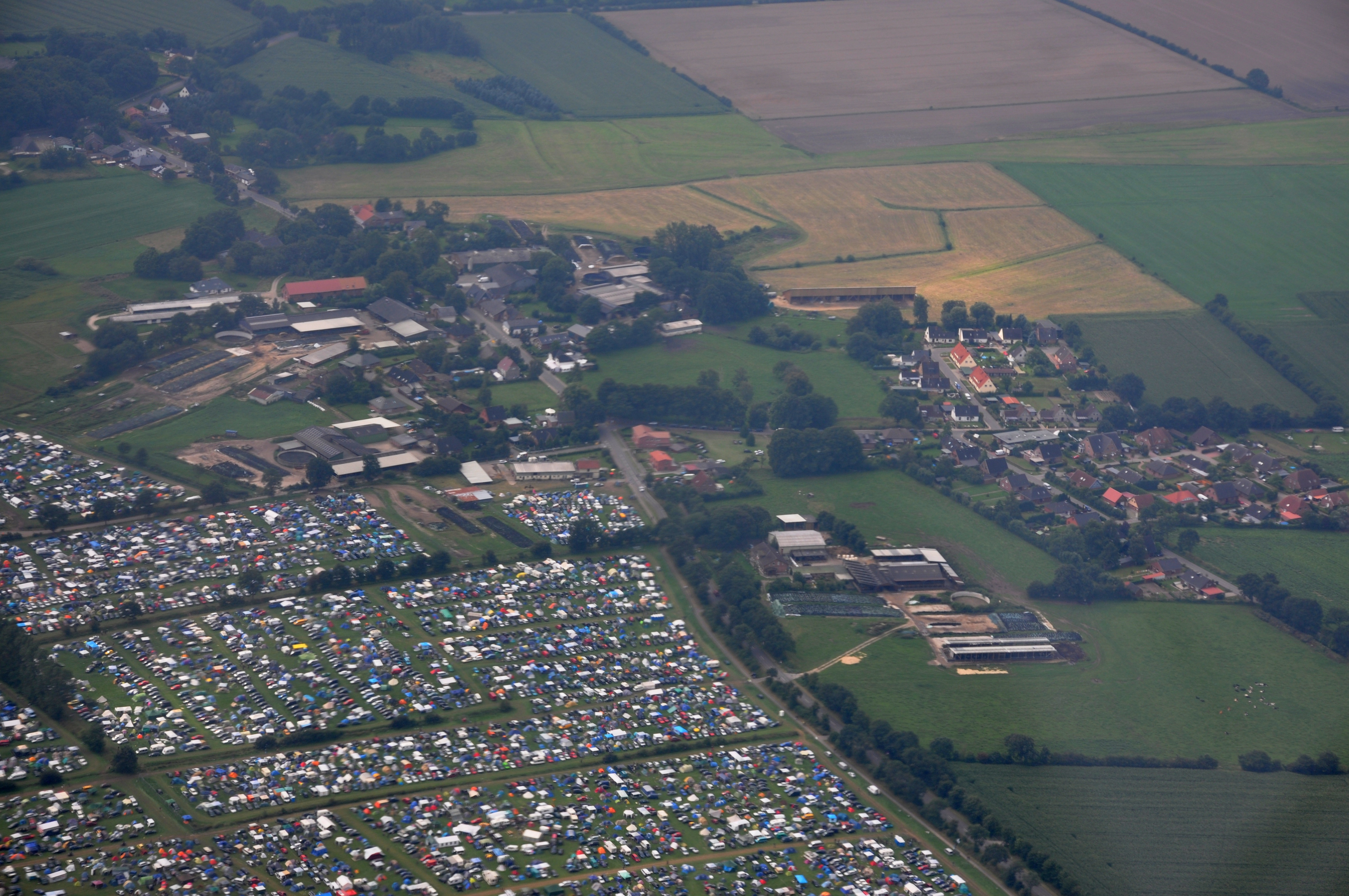 Aerial view of 2011 Wacken Open Air, Saturday around 11 am